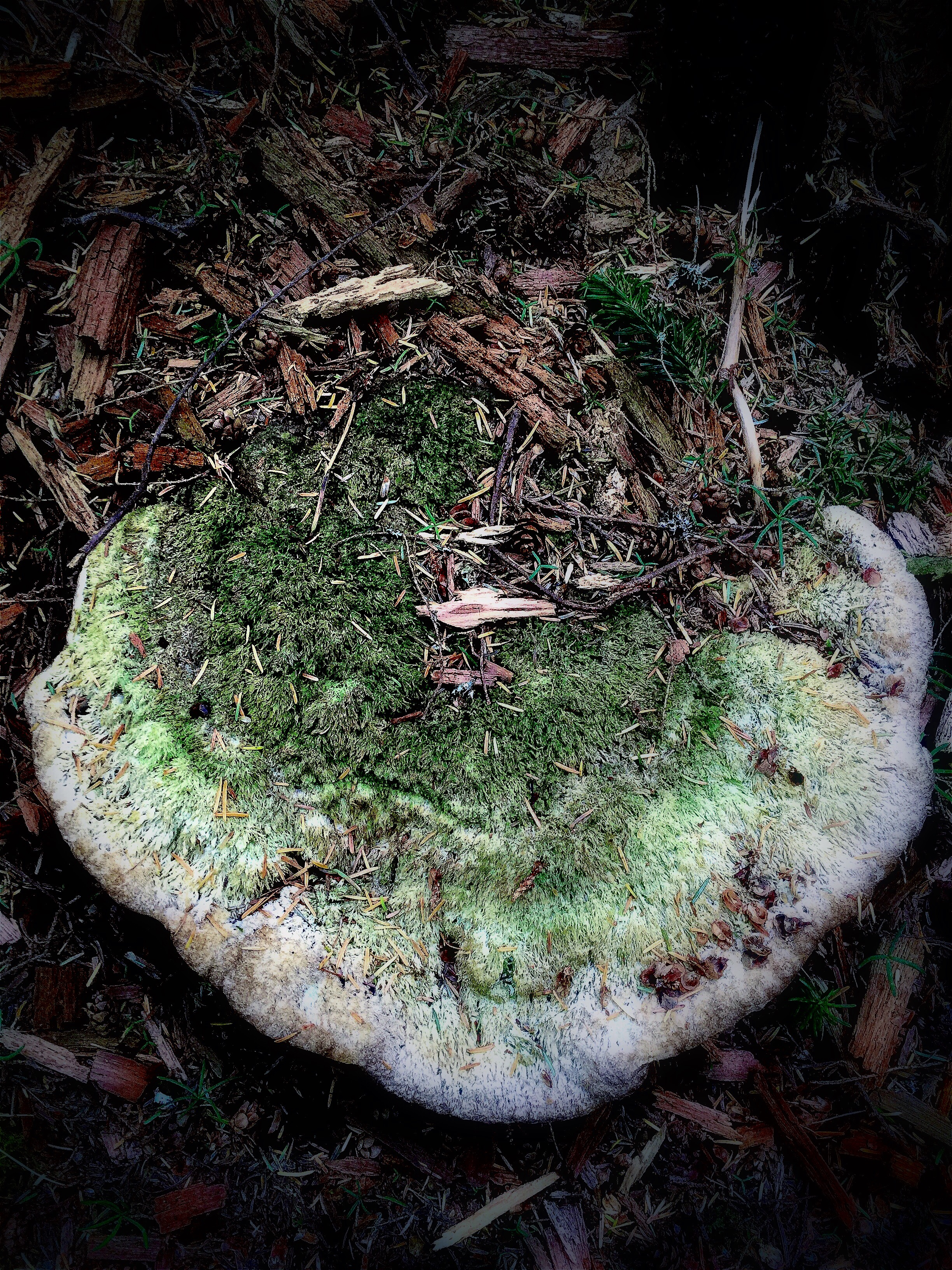 Bridgeoporus nobilissimus (W.B. Cooke) T.J. Volk, Burds. & Ammirati Location: Multnomah County, Oregon, USA. Observation Notes: A Bridgeoporus nobilissimus fungus on a dead noble fir tree. For more information about this, see the observation page at Mushroom Observer.